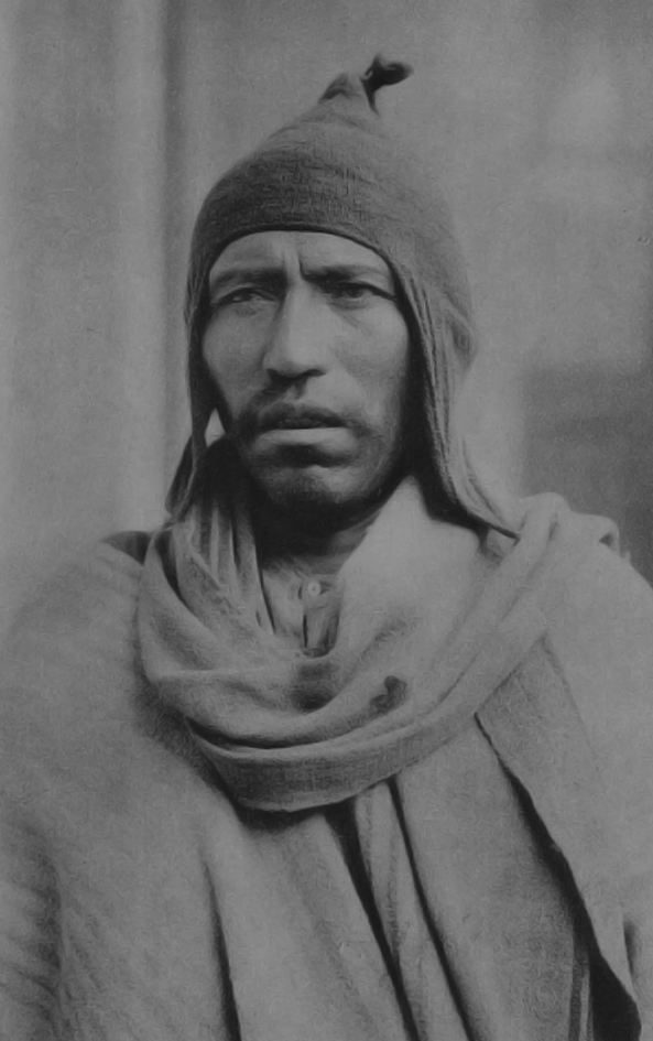 Santos Marka Tula, bolivian cacique